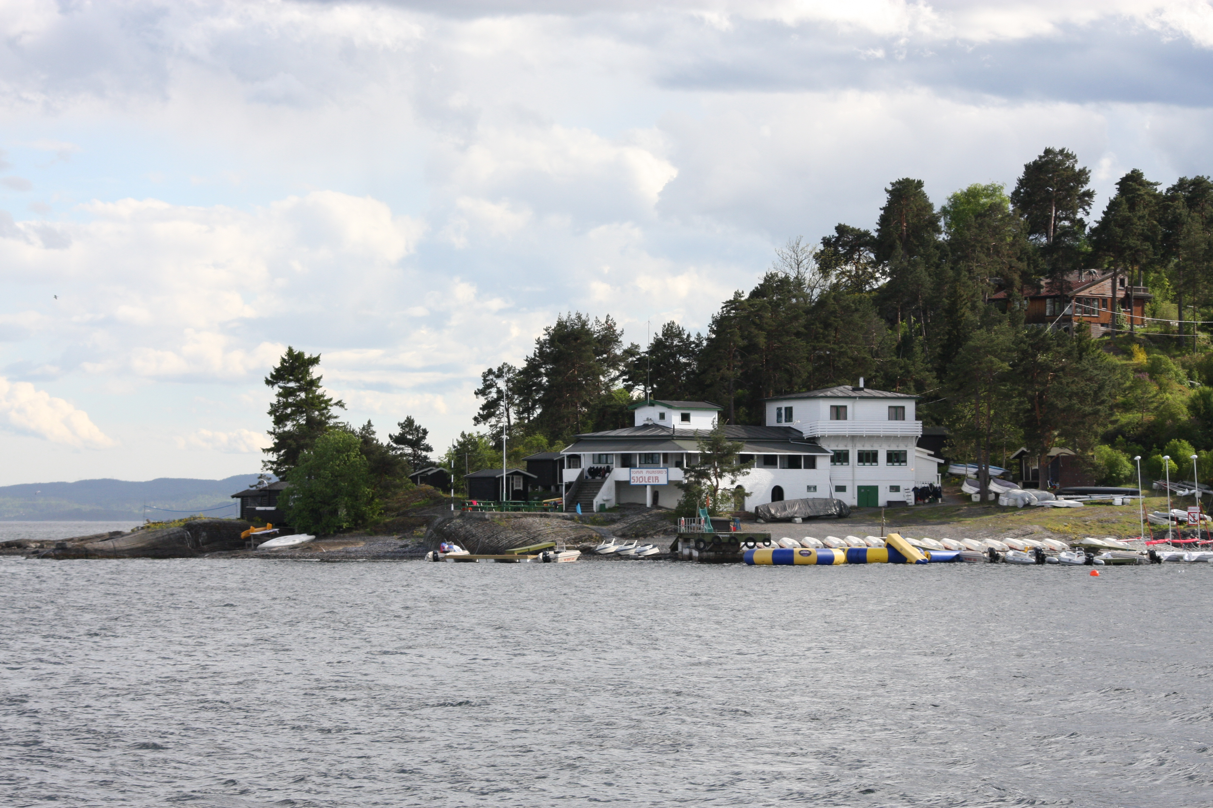 Tomm Mursdat maritime summer school for children, Oslo fjord. Norway.